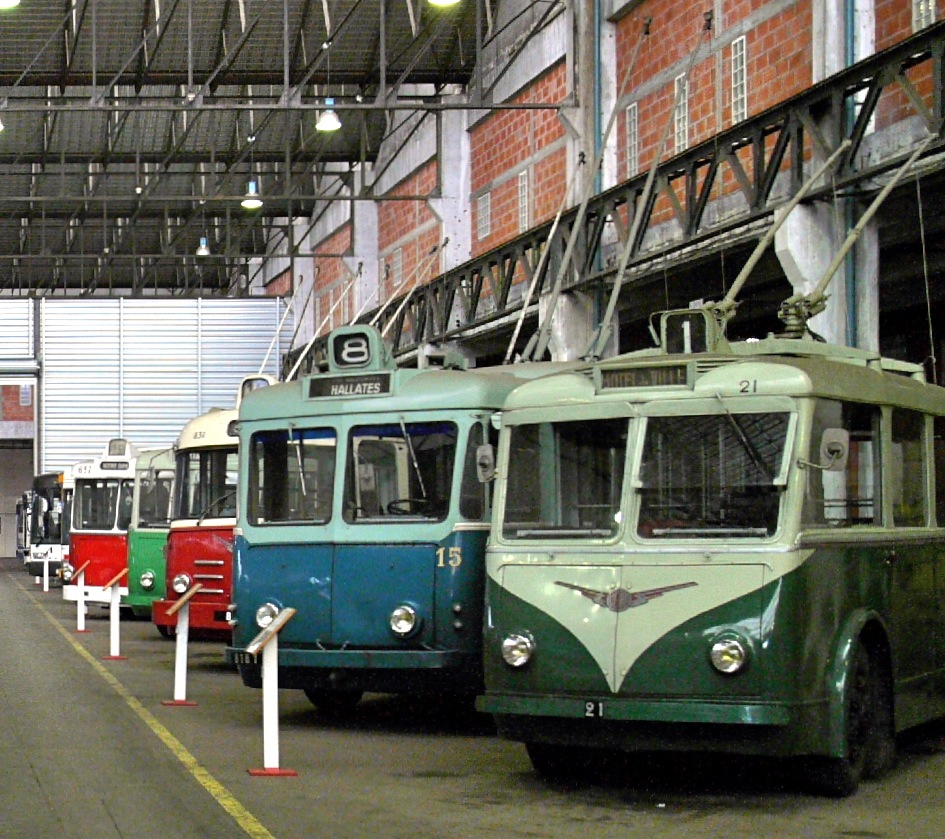 Several restored Vétra-built trolleybuses on display at AMTUIR, the museum of urban transportation, in Colombes, France. Starting with the closest (from right to left), the nearest five are Poitiers 21, a 1939 CS55; Le Havre 15, a 1951 VBRh; Lyon 830, a 1961 VA3B2; St. Etienne 65, a 1951 VCR; and Grenoble 637 (ex-Paris 8126), a 1957 VBF.